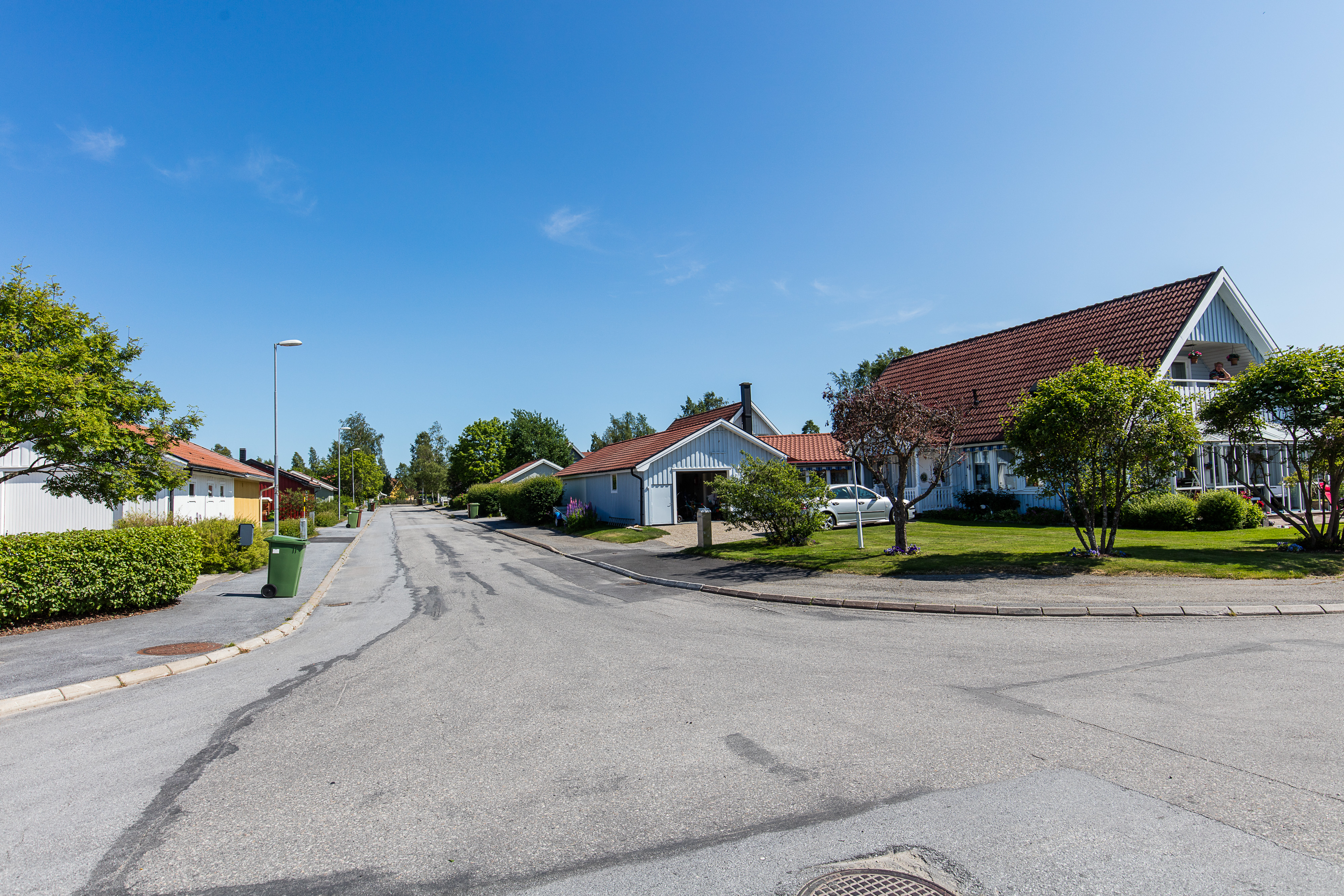 The Böleäng district in Umeå is close to the Volvo Truck factory, south of the Ume River.